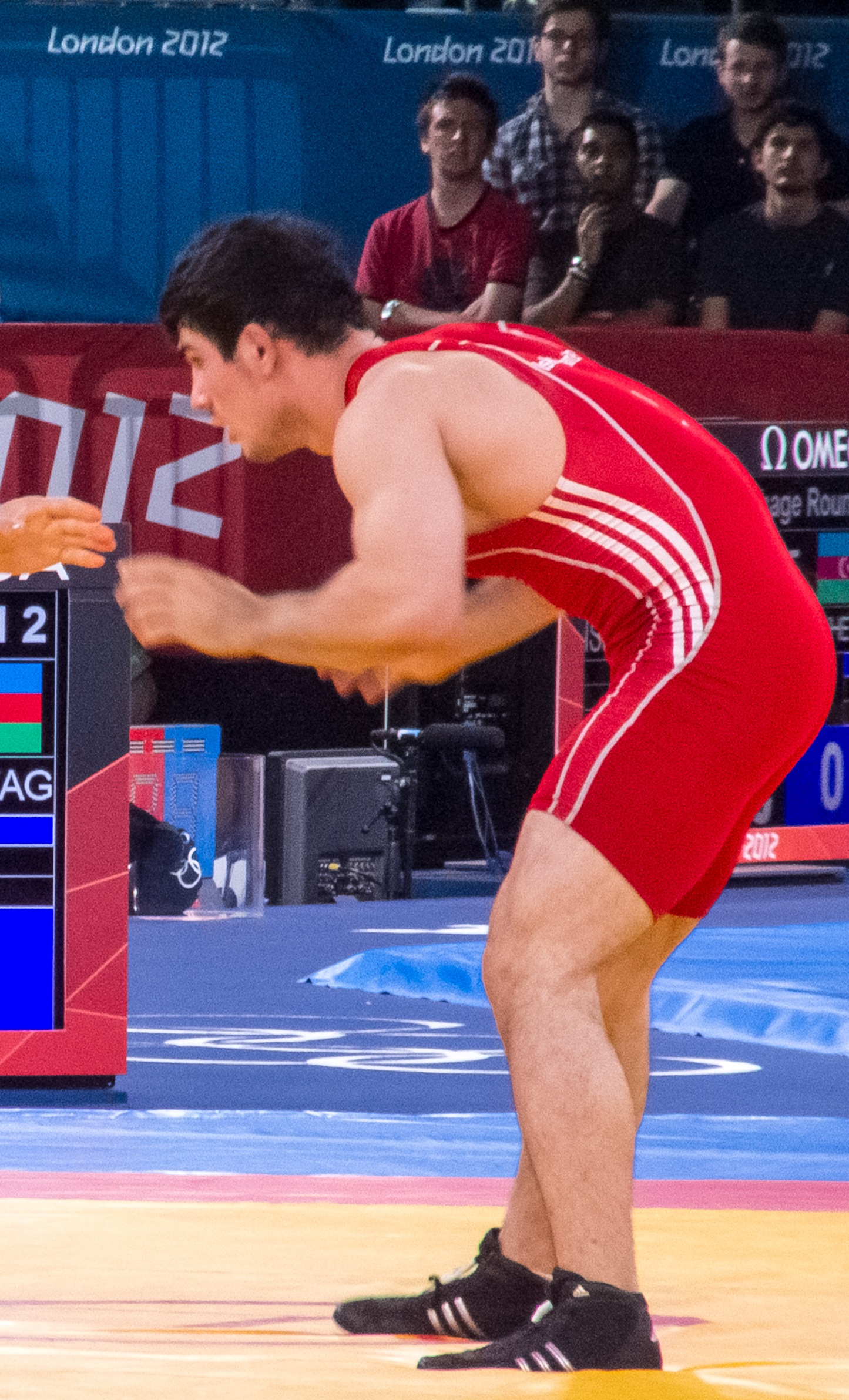 Rustam Iskandari, London Olympics 2012